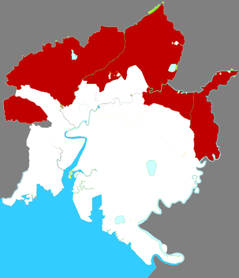 Location of Panshan county in Panjin City, China